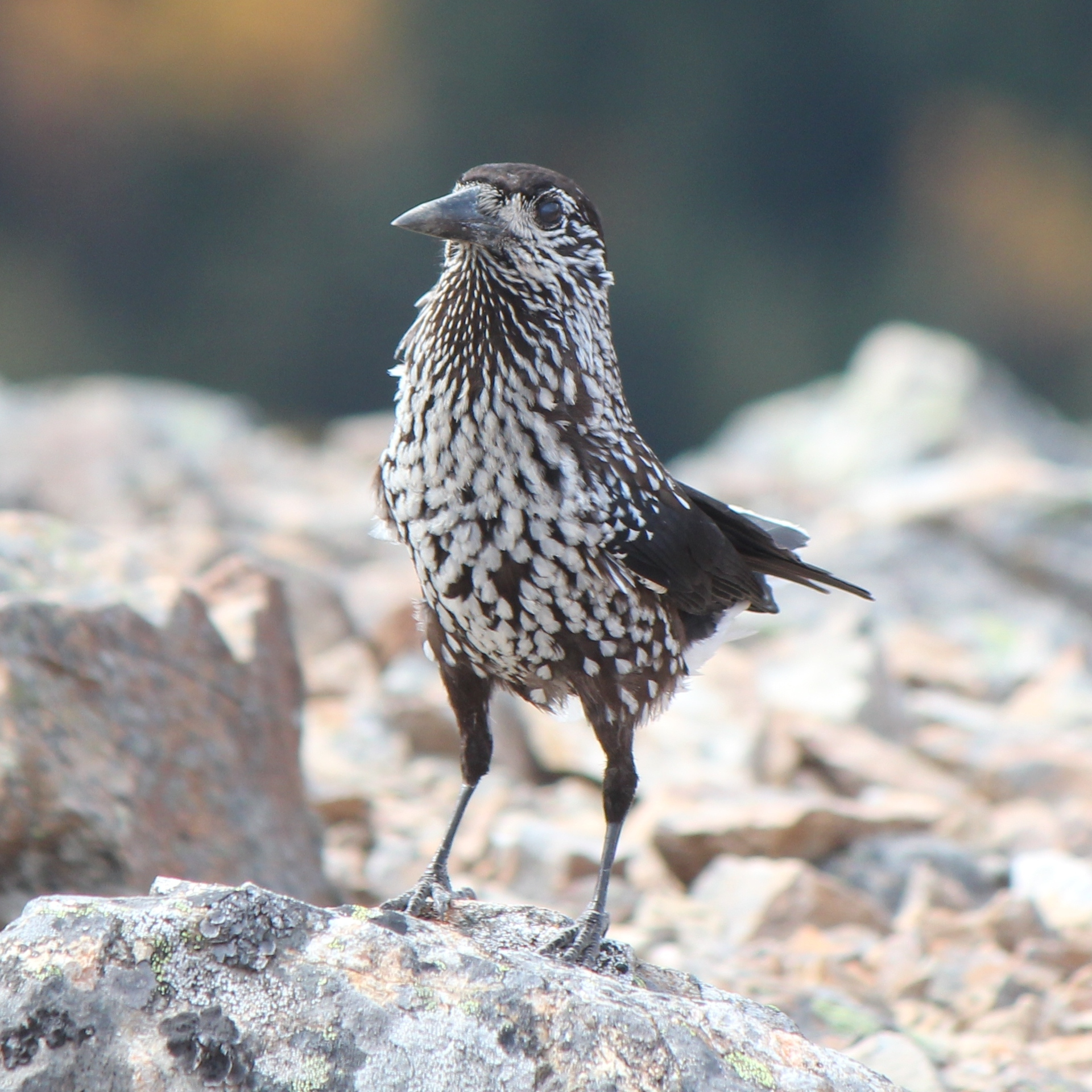 Spotted Nutcracker (Nucifraga caryocatactes (Linnaeus, 1758) ), in Mount Chō, Hida Mountains, Nagano prefecture, Japan.